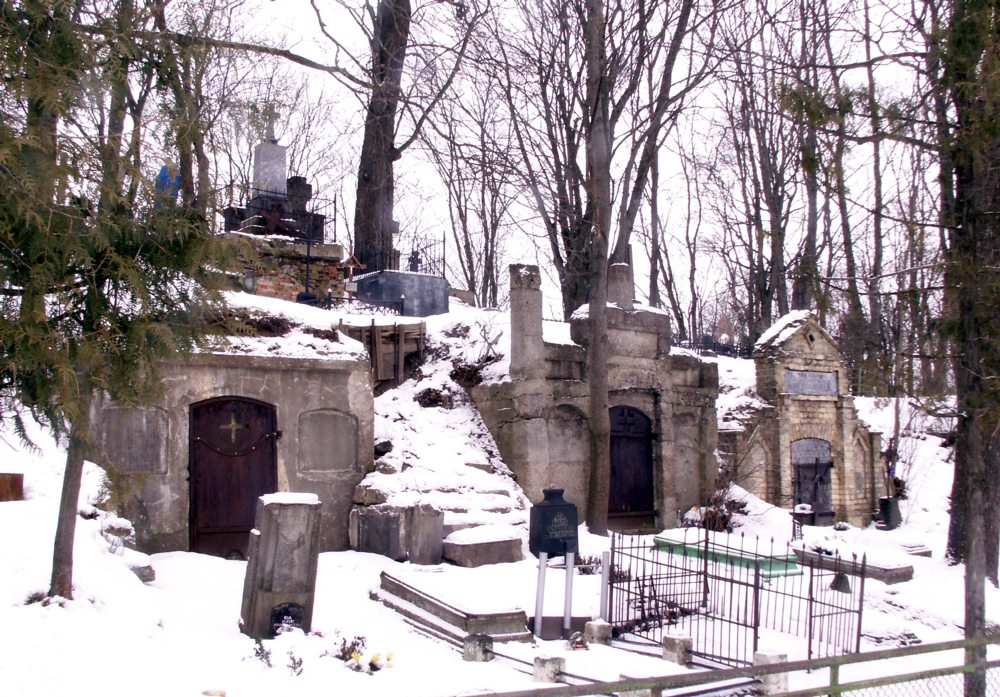 Old cemetery in Šiauliai, Lithuania